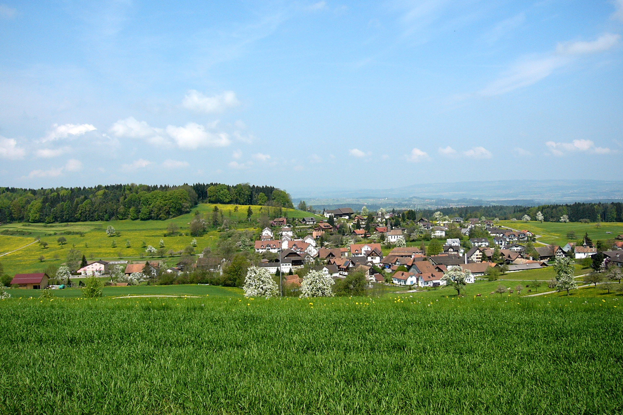 Picture shows the village of Braunau, canton of Thurgau, Switzerland. View from the Brunauer Höchi towards north.